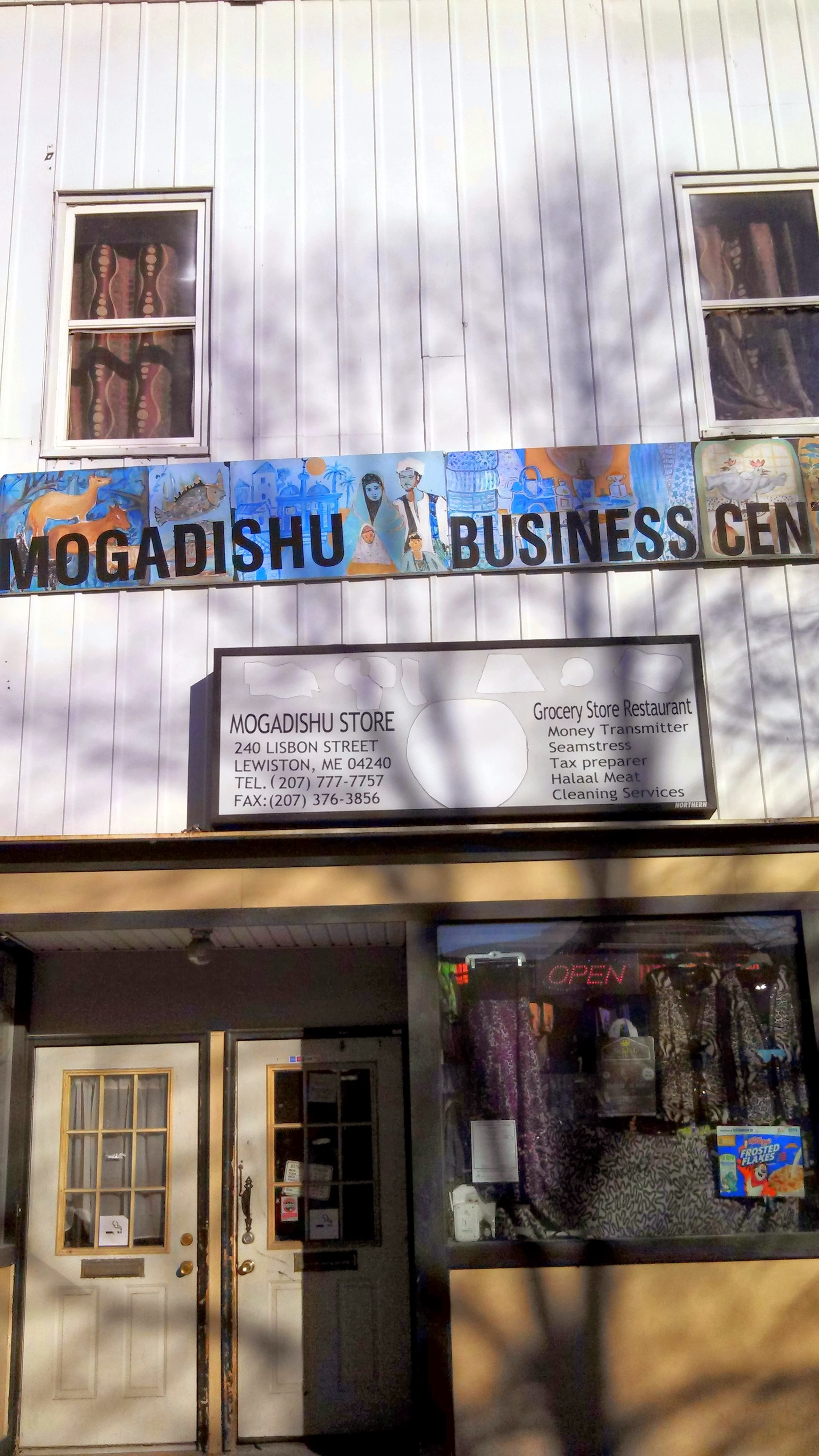 The Somali-owned Mogadishu Business Center on Lisbon Street in Lewiston, Maine.